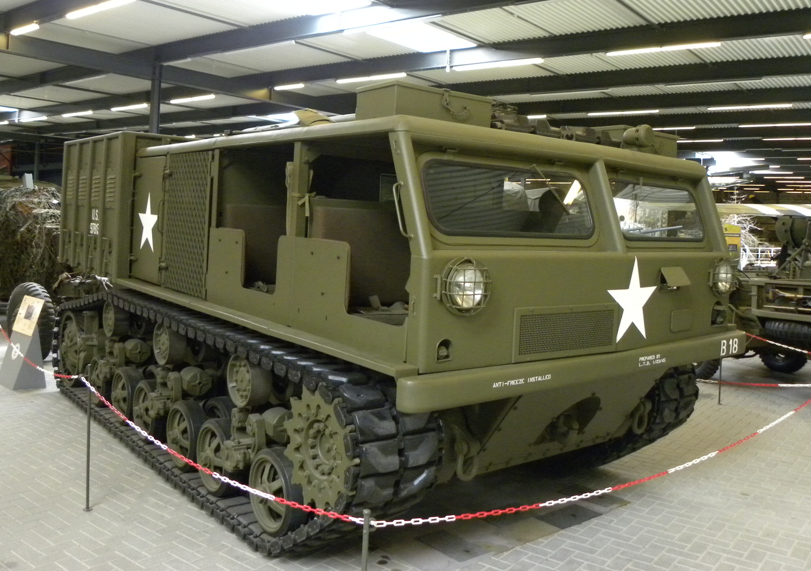 Allis Chalmers M 6 High Speed Tractor from Wo-II